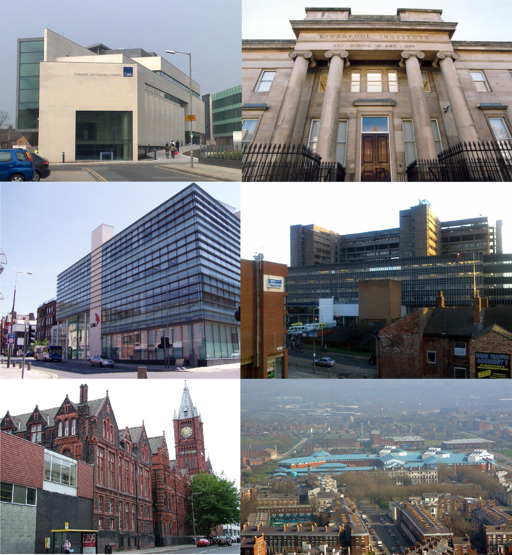 Montage of several images of the Liverpool Knowledge Quarter from Wikipedia Commons